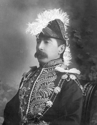 Henry Northcote, 1st Baron Northcote (1846-1911)